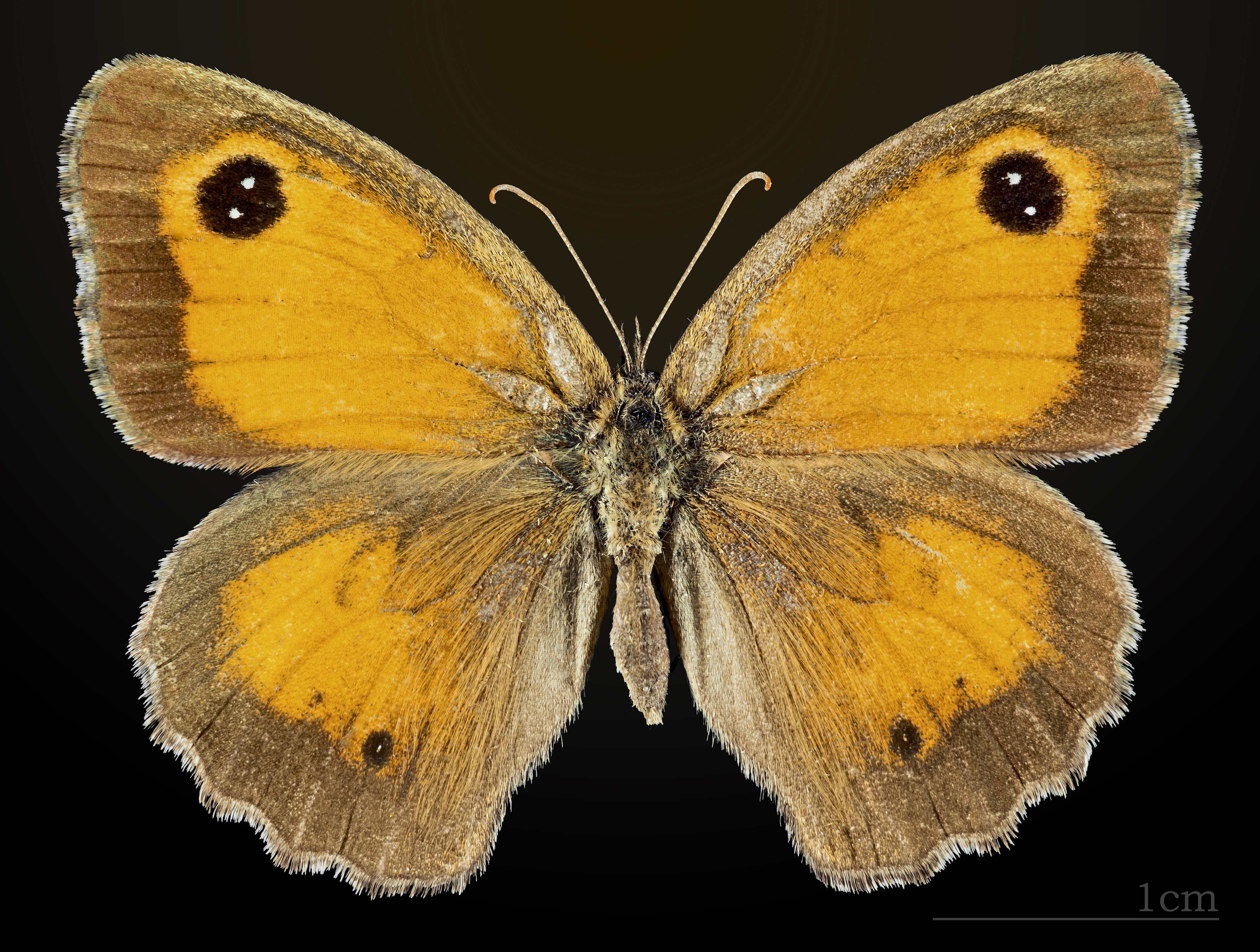 gatekeeper - ♀ Dorsal side Locality: Balma, Haute-Garonne, France